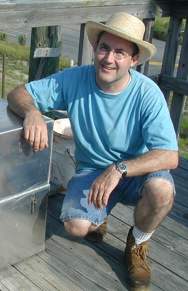 Joseph R. Dwyer, professor of Physics and Space Sciences at the Florida Institute of Technology and director of the Geospace Physics Lab at FIT.